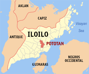 Map of Iloilo showing the location of Pototan